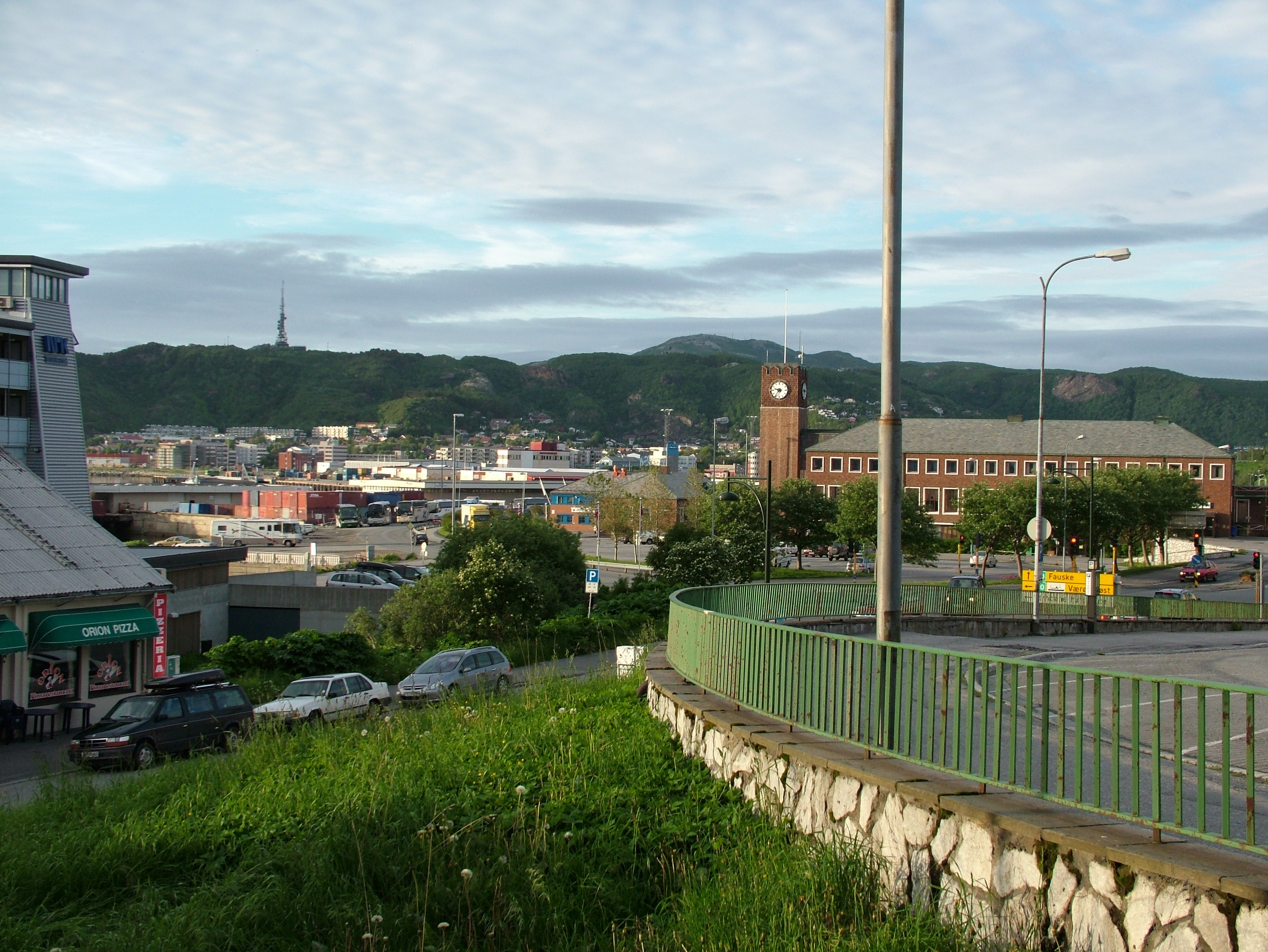 Station and port of Bodø